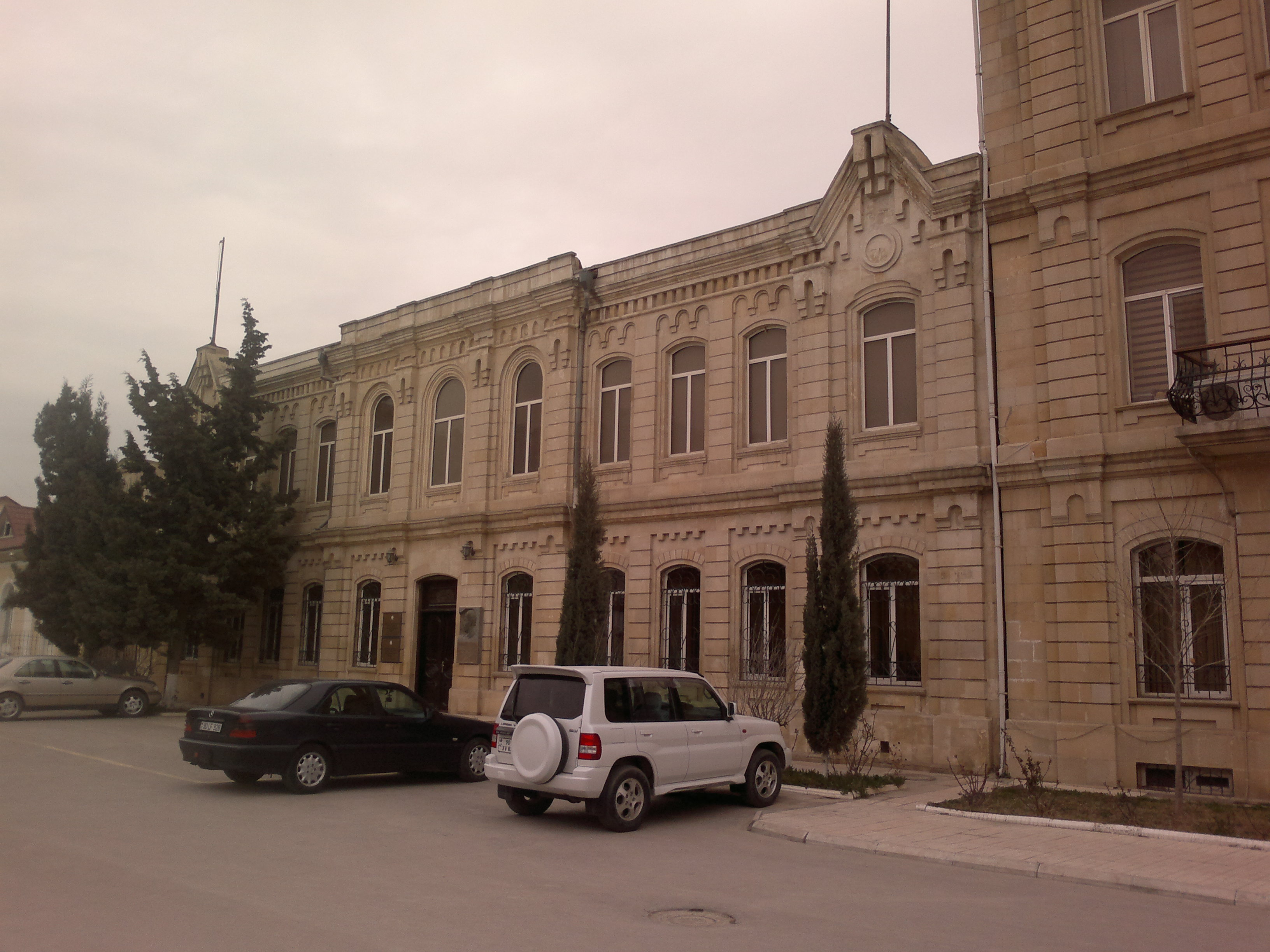 House of hospital in Baku (Black City) where Narimanov worked as a doctor from 1914 till 1917. Nowadays Azerbaijan Museum of Medicine.